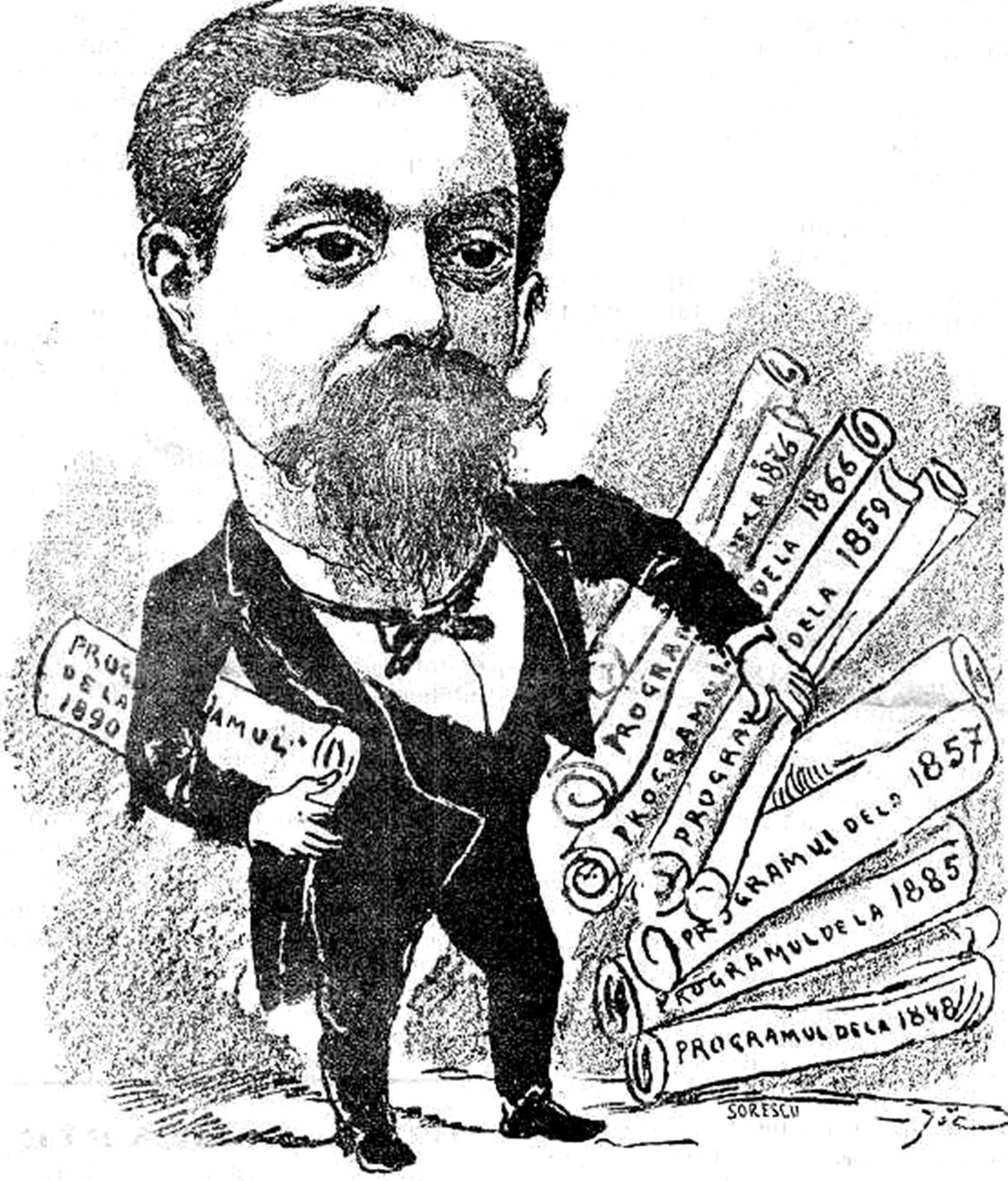 Caricature of the Romanian newspaperman Vintilă Rosetti, published alongside a mocking biographical sketch. Rosetti had taken over leadership of Românul, the radical newspaper founded by his more famous father, C. A. Rosetti, but was unable to prevent its drop in popularity and circulation. In this cartoon, Rosetti the younger discards his father's ambitious programs, landmarks in the history of left-of-center politics in Romania between 1848 and 1885. These he replaces with his own "Program of 1890".